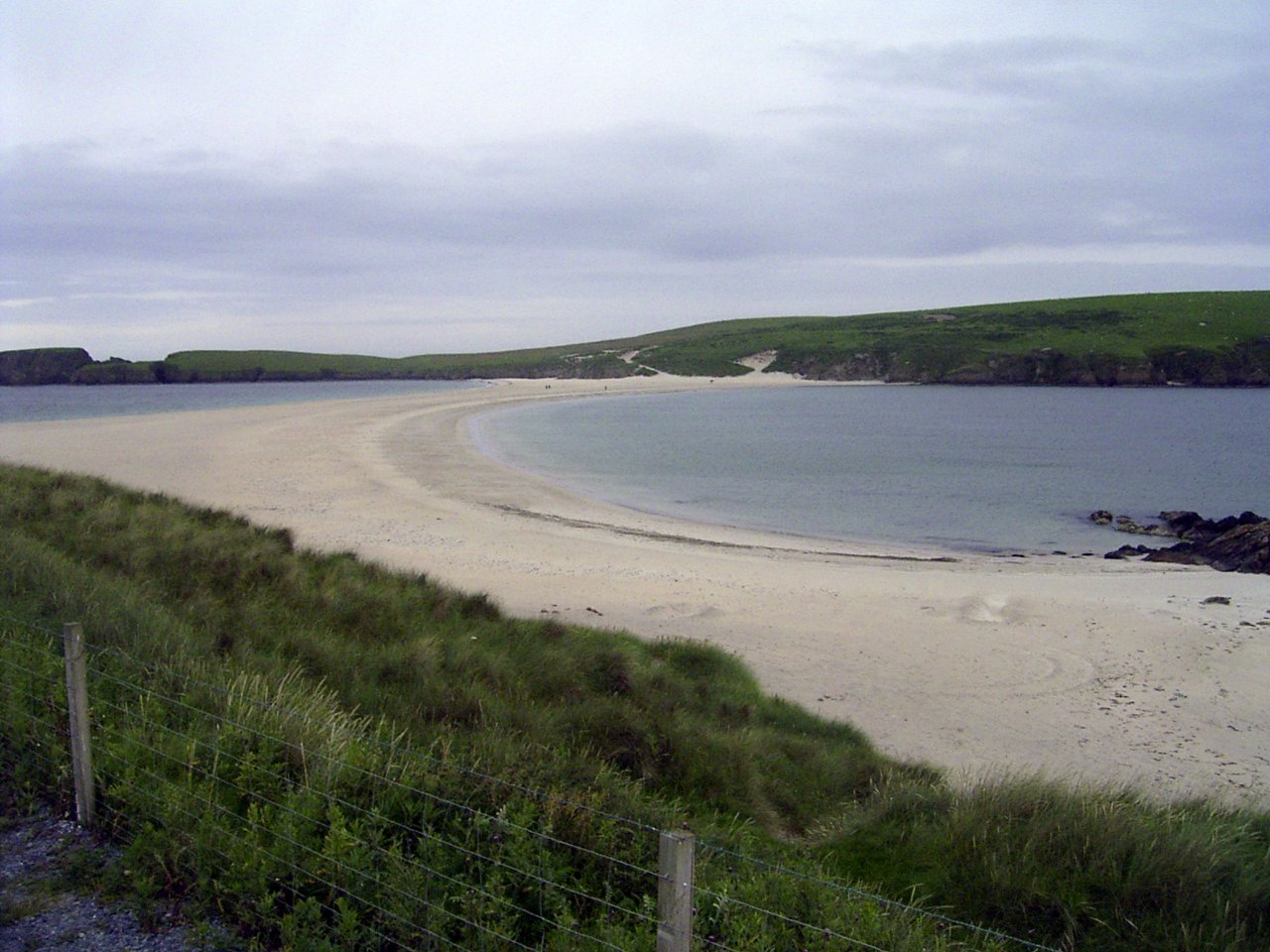 St Ninian's Isle and tombolo, Shetland, Scotland